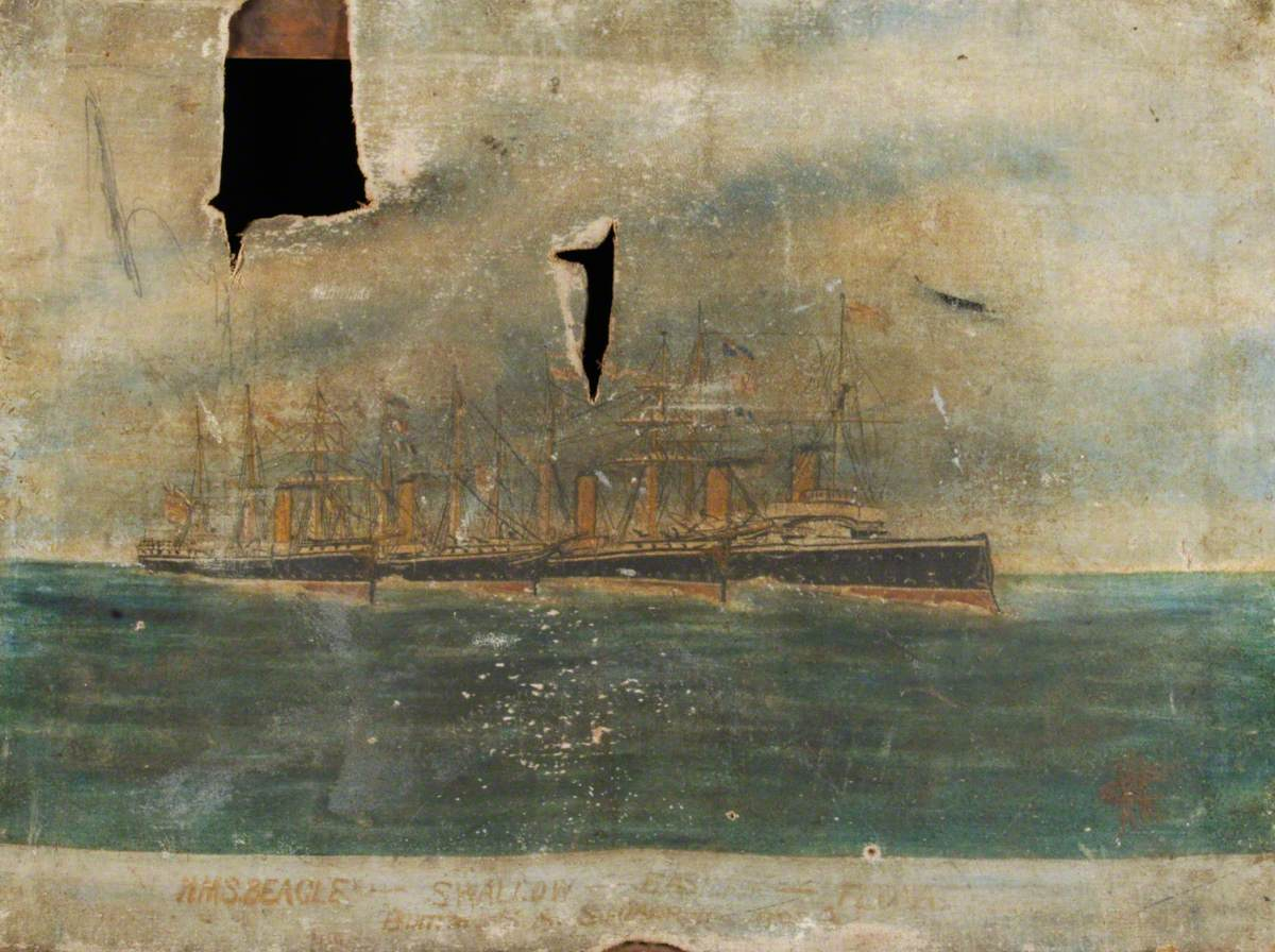 HMS 'Beagle', HMS 'Swallow', 'Basilisk' and 'Flora', by unknown artist. National Museum of the Royal Navy, Portsmouth. Note on dates: HMS Flora (1893), was commissioned 24 July 1895. HMS Swallow (1885) was a Nymphe-class sloop launched in 1885 and sold in 1904.